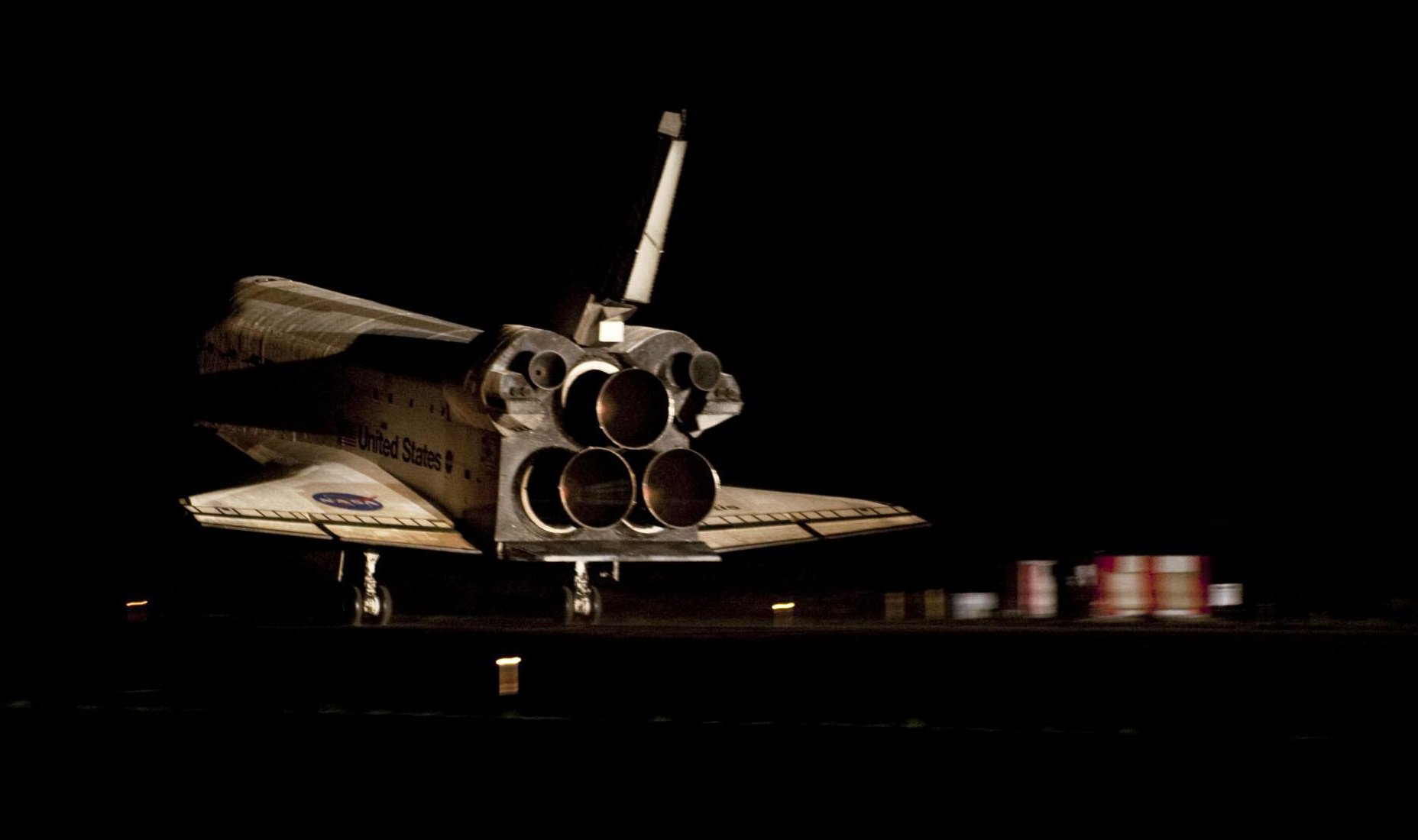 STS-135 NASA description follows; The Voyage Home Space shuttle Atlantis' bright-white, iconic frame illuminates the darkness as it touches down on the Shuttle Landing Facility's Runway 15 at NASA's Kennedy Space Center in Florida for the final time. Securing the space shuttle fleet's place in history, Atlantis marked the 26th nighttime landing of NASA's Space Shuttle Program and the 78th landing at Kennedy. Main gear touchdown was at 5:57:00 a.m. EDT, followed by nose gear touchdown at 5:57:20 a.m., and wheelstop at 5:57:54 a.m. On board are STS-135 Commander Chris Ferguson, Pilot Doug Hurley, and Mission Specialists Sandra Magnus and Rex Walheim. On the 37th shuttle mission to the International Space Station, STS-135 delivered more than 9,400 pounds of spare parts, equipment and supplies in the Raffaello multi-purpose logistics module that will sustain station operations for the next year. STS-135 was the 33rd and final flight for Atlantis, which has spent 307 days in space, orbited Earth 4,848 times and traveled 125,935,769 miles. Image Credit: NASA/Kim Shiflett